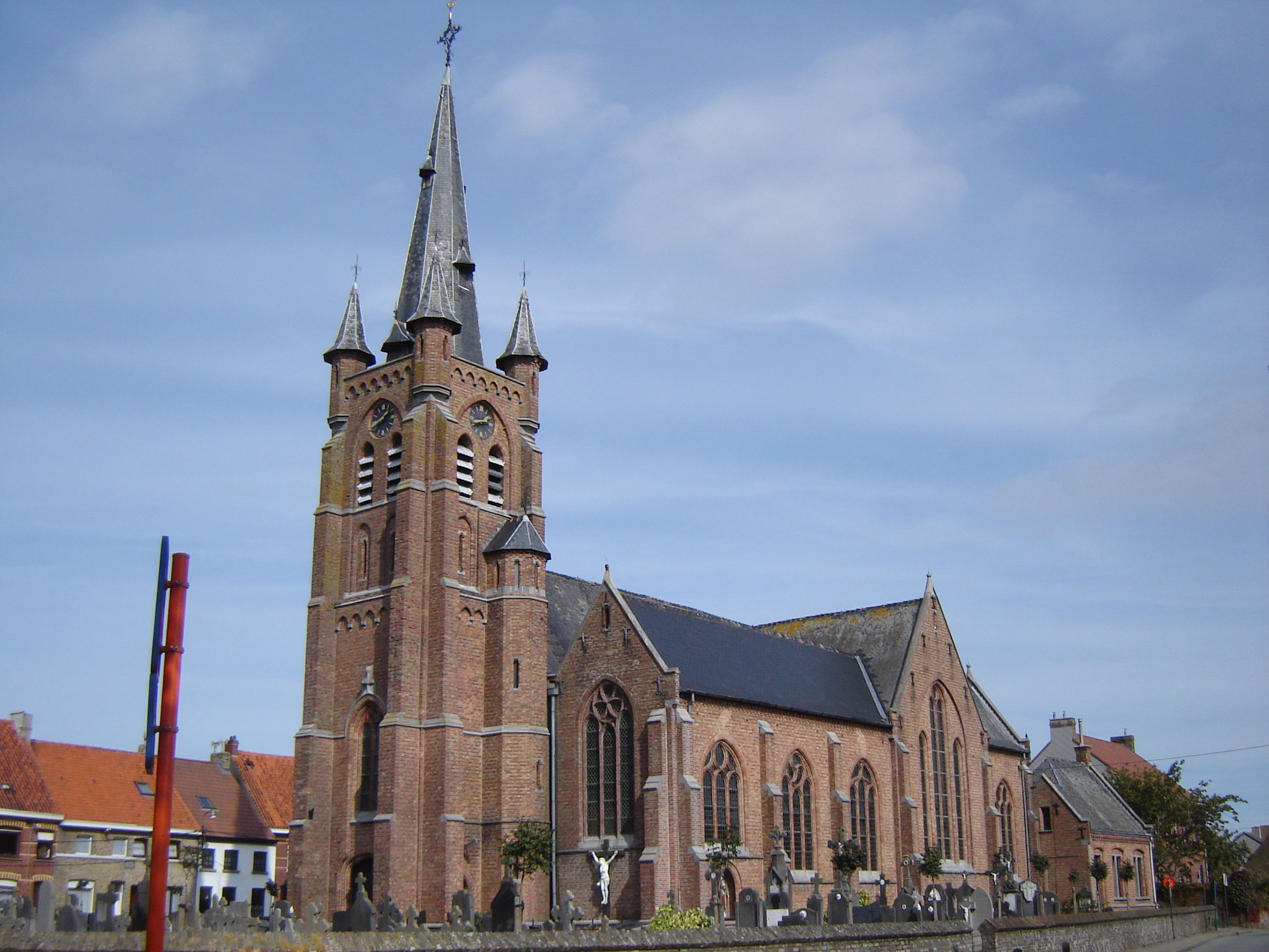 Church of Saint Cornelius in Snaaskerke. Snaaskerke, Gistel, West Flanders, Belgium